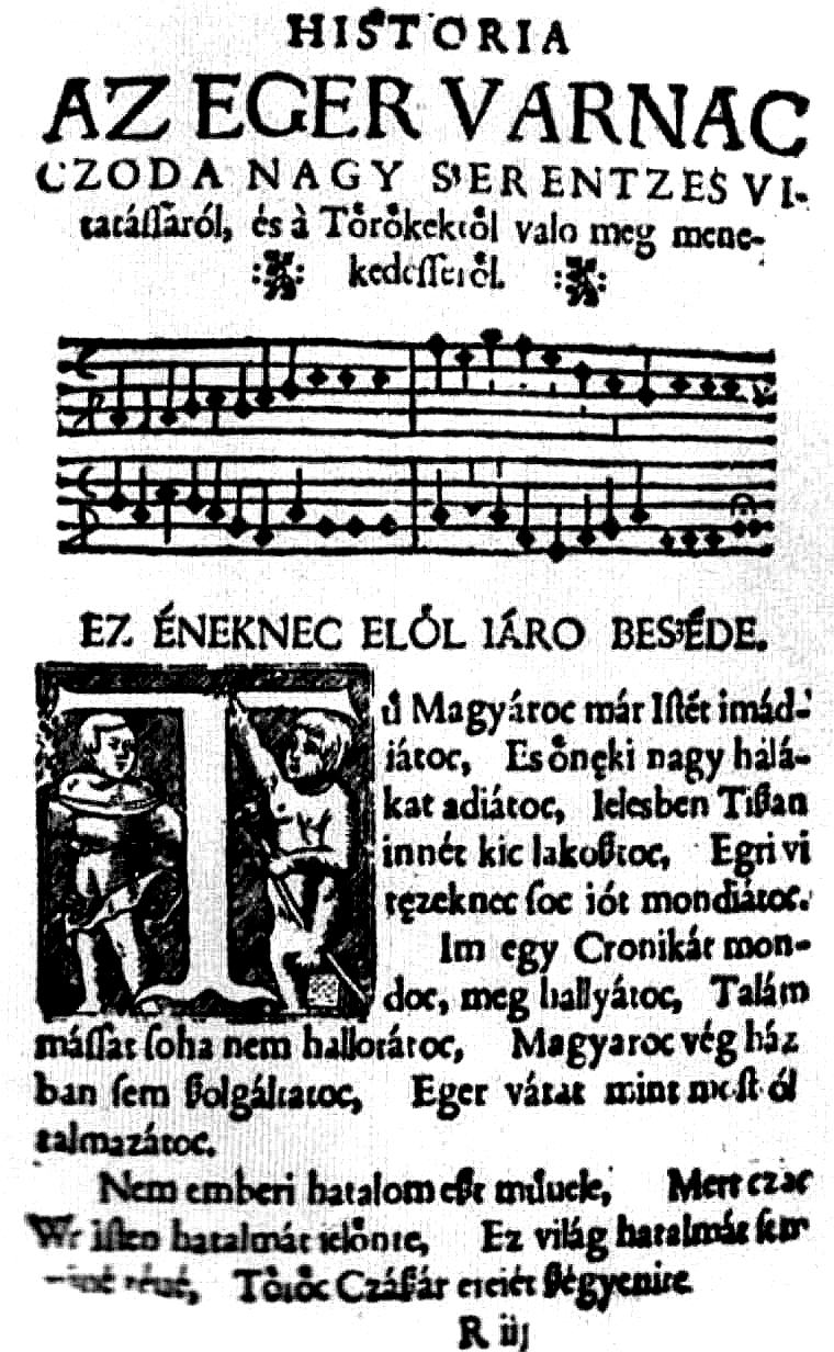 A page in Tinódis Cronica